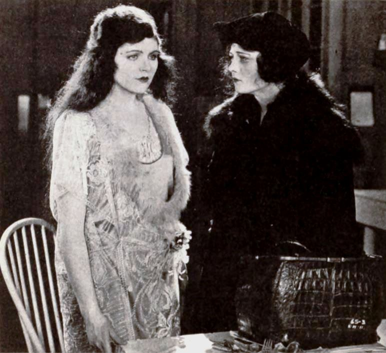 Still from the American melodrama film The Miracle of Manhattan (1921) with Elaine Hammerstein, on page 62 of the April 16, 1921 Exhibitors Herald.